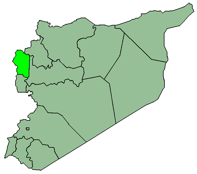 Locator map of Latakia Governorate — in northwestern Syria .